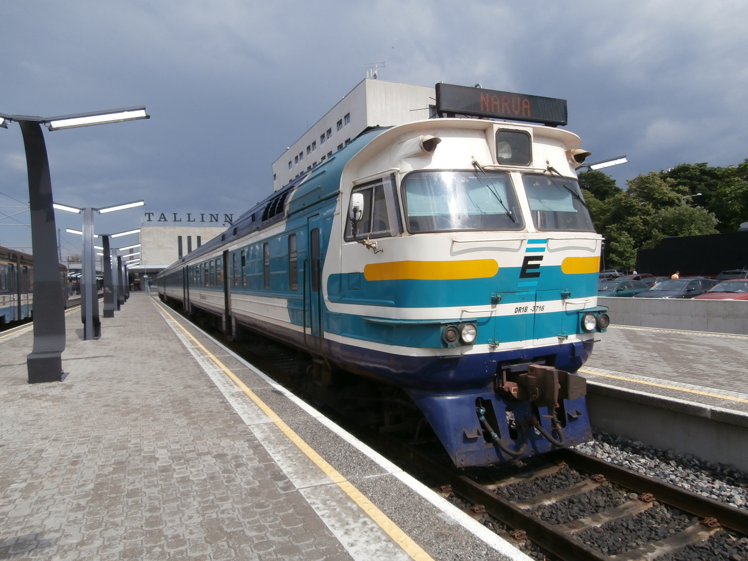 Diesel multiple unit DR1B-3716 at Balti Jaam in Tallinn 1 July 2013